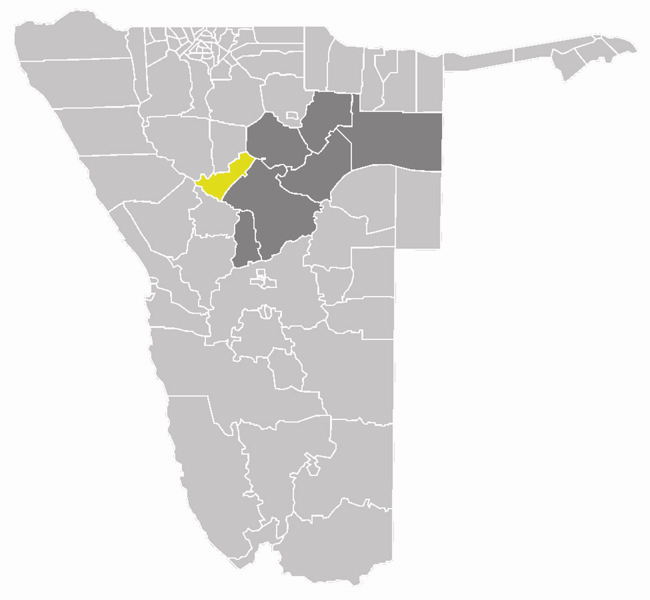 map of the Otjiwarongo constituency within the Otjozondjupa region, Namibia